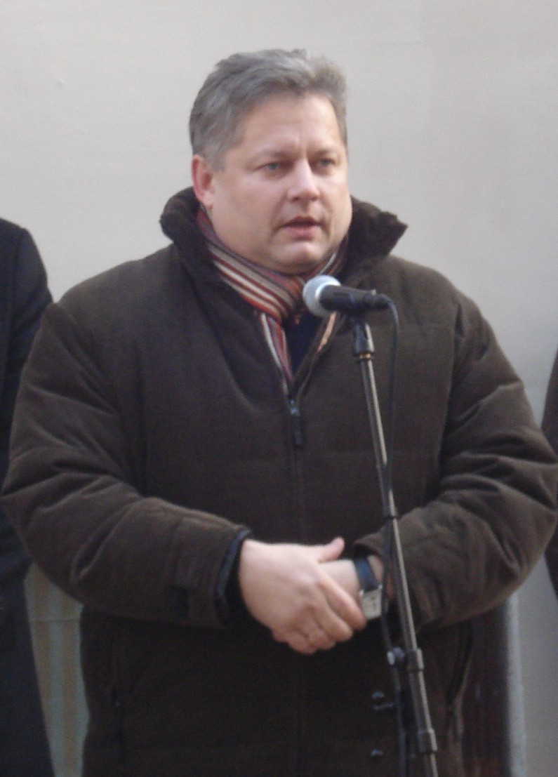 Evaldas Ignatavičius, Vice-Minister of Foreign Affairs of the Republic of LithuaniaLietuvių: Užsienio reikalų viceministras Evaldas Ignatavičiusa atminimo lentos Piotrui Stolypinui ceremonijoje